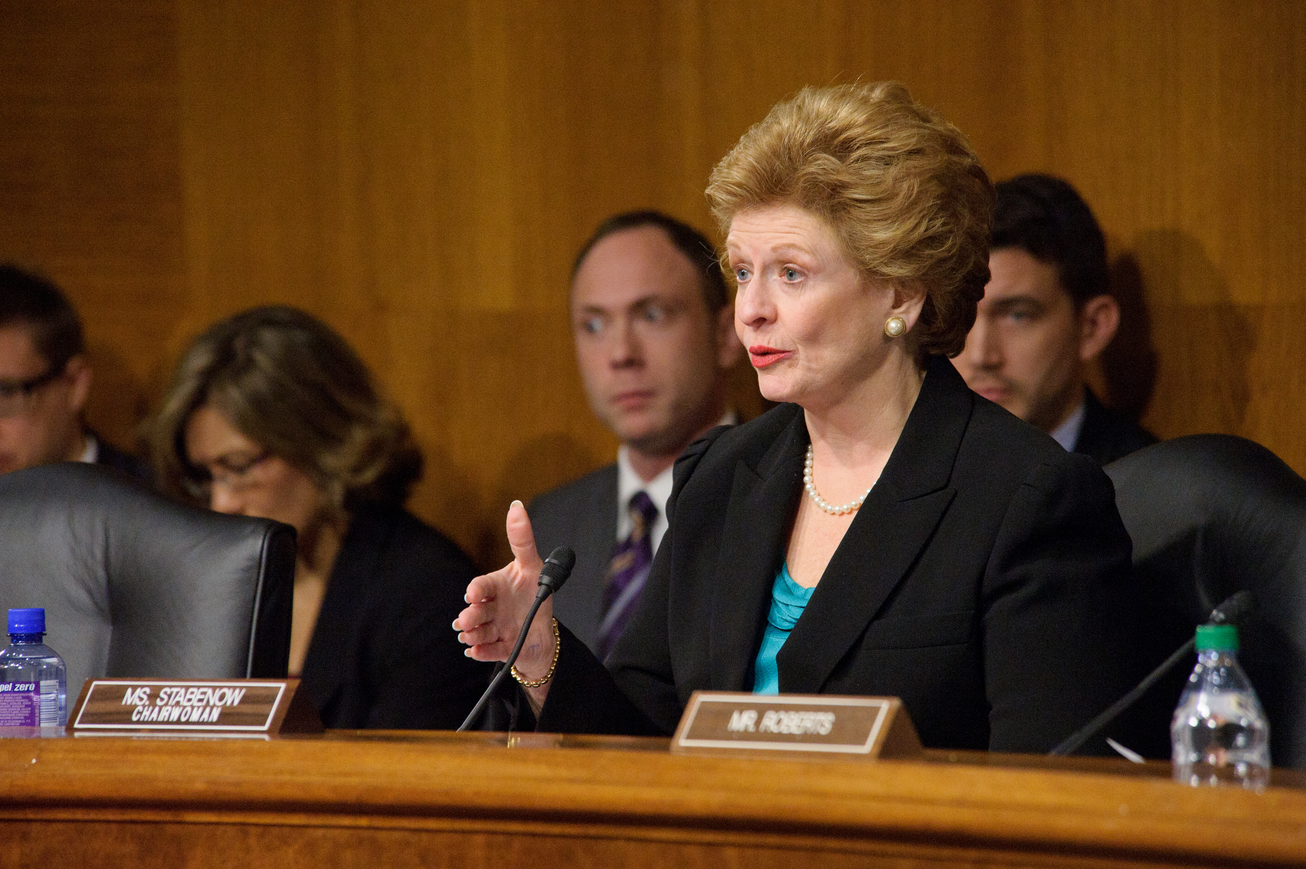 Chairwoman Stabenow presides over the Agriculture Committee hearing on the CFTC's and SEC's oversight of MF Global on December 1st. This photograph is provided by the Office of U.S. Senator Debbie Stabenow.